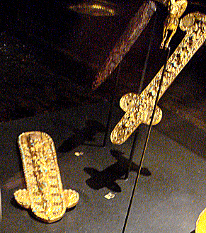 Polylobed decorated weapons. Tillya Tepe. Guimet Museum.